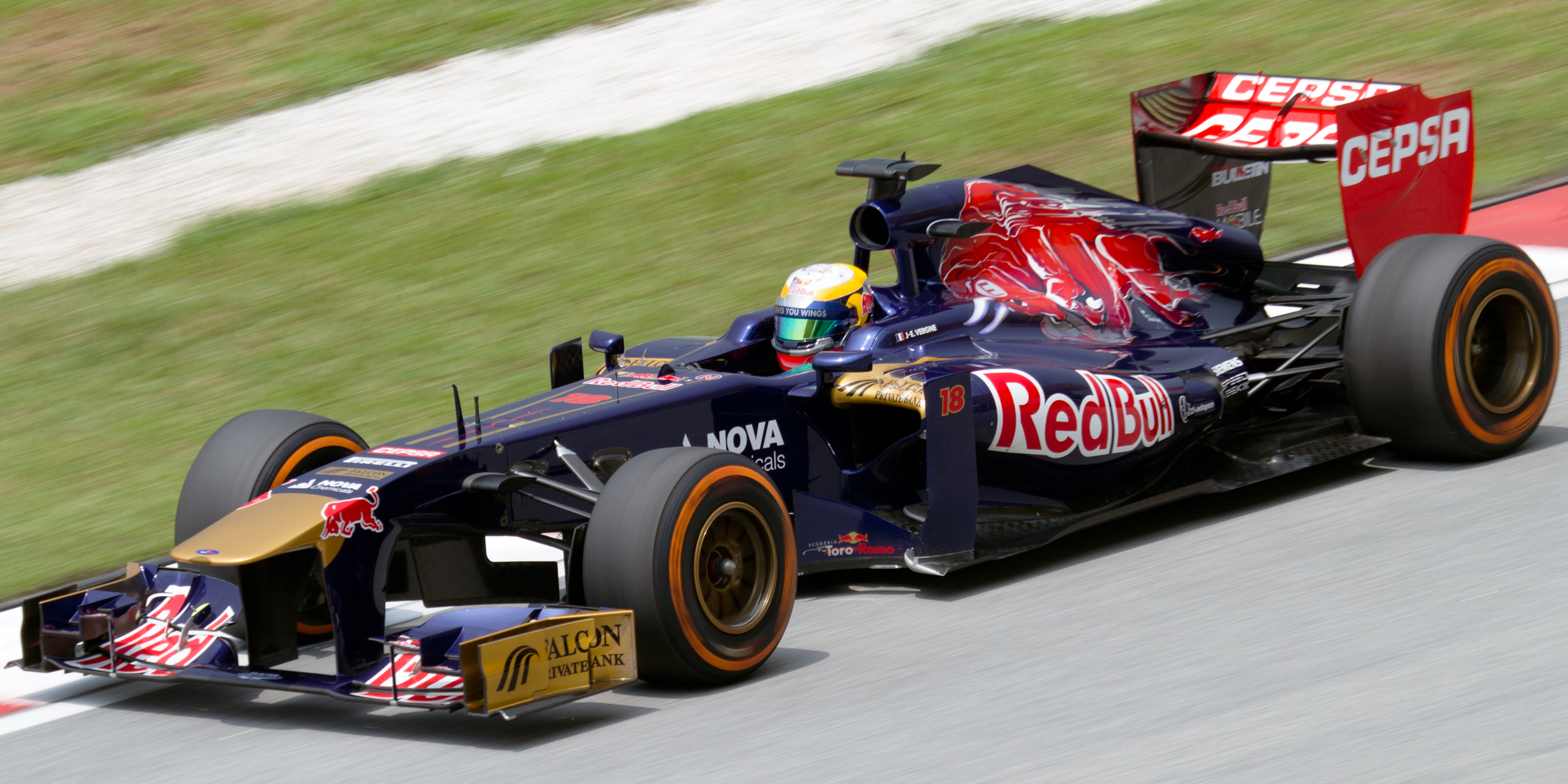 Formula One 2013 Rd.2 Malaysian GP: Jean-Éric Vergne (Toro Rosso) during the second practice session on Friday.